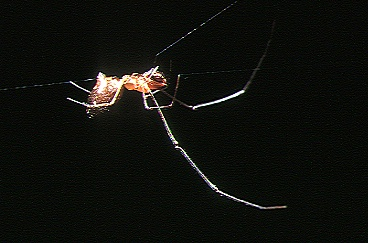 male Argyrodes xiphias from Okinawa.